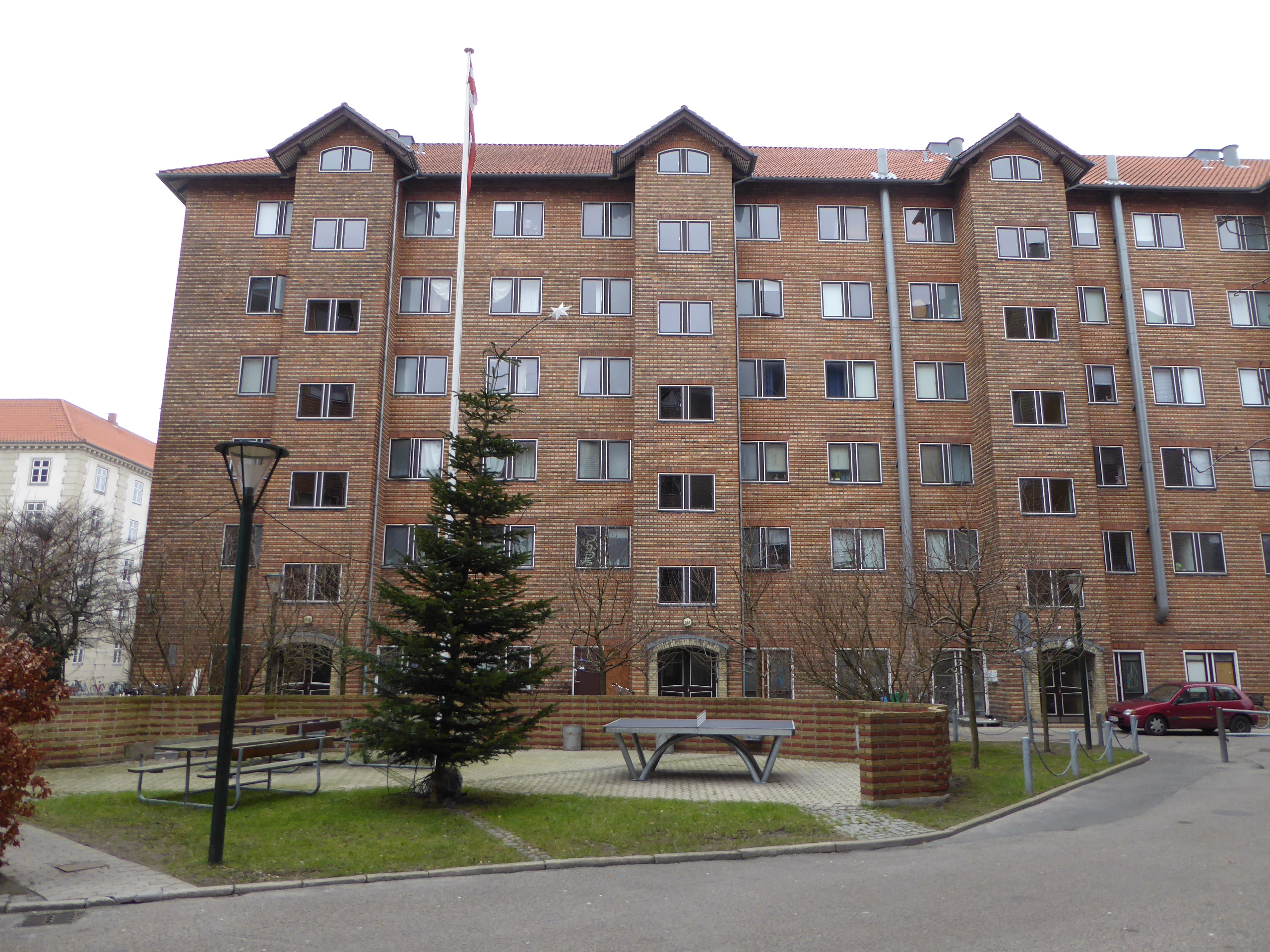 Stefansgården is four apartment blocks between Hellebækgade, Humlebækgade and Stefansgade in Nørrebro in Copenhagen. Block at Stefansgade.